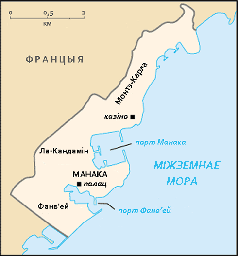 Map of Monaco in Belarusian